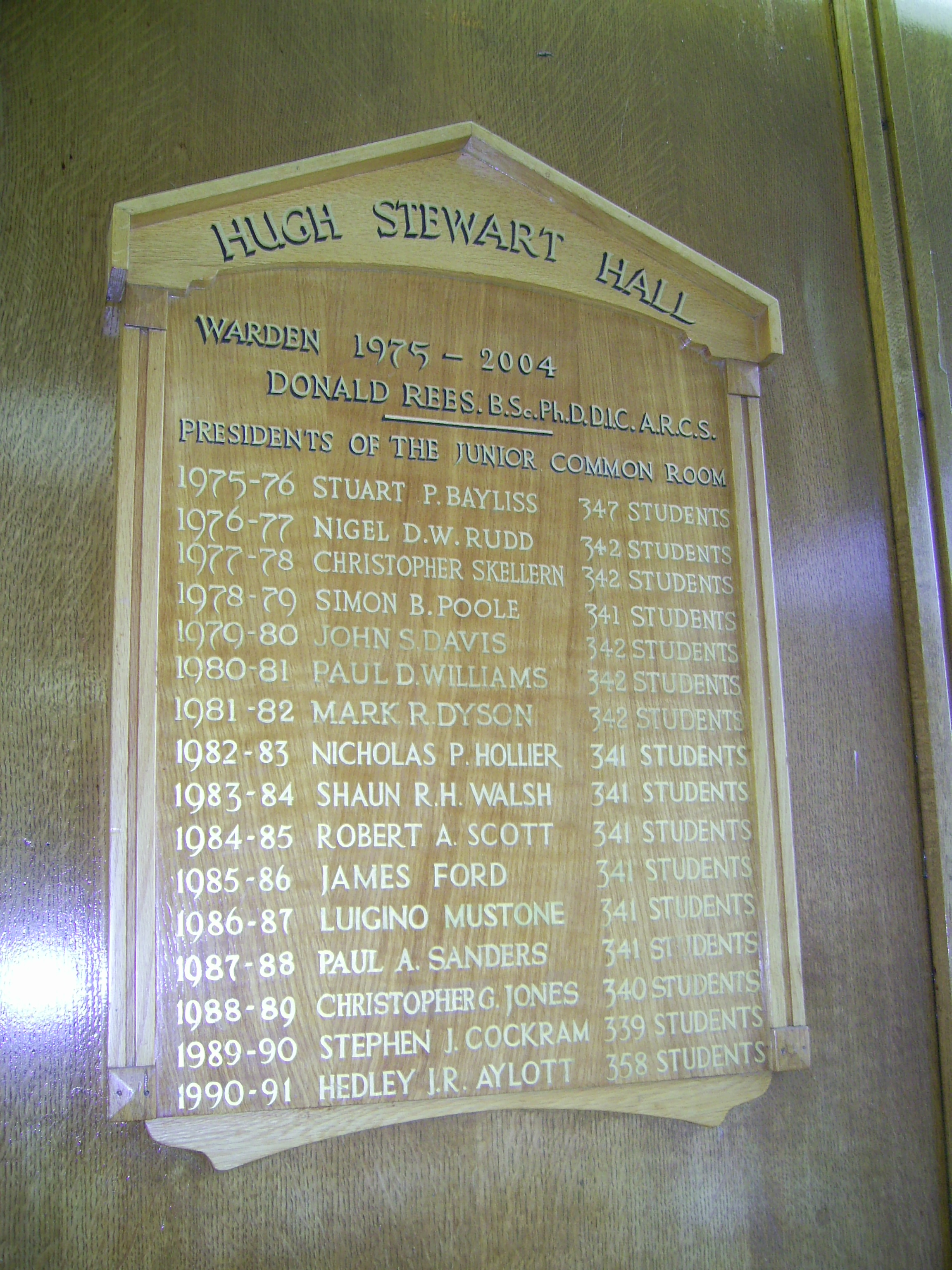 List of JCR presidents of Hugh Stewart Hall of the University of Nottingham, 1975-1991.